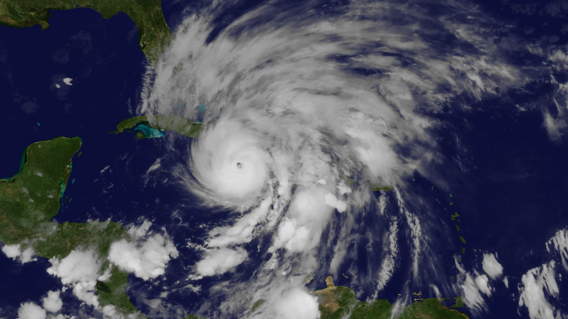 GOES-13 view of Hurricane Sandy intensifying the Caribbean Sea before the storm tracked up the U.S. East Coast in October 2012.